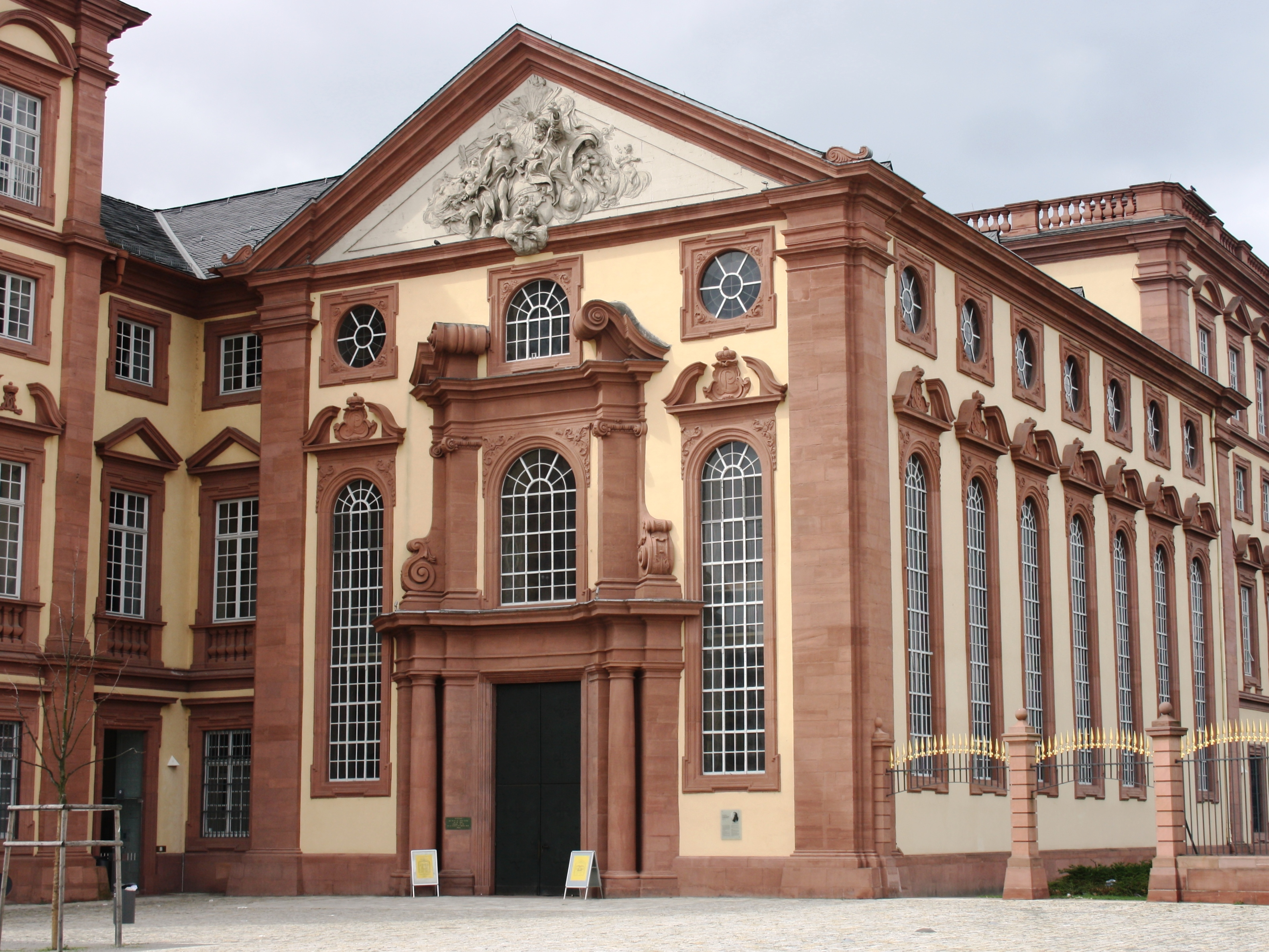 Mannheim, Germany. Palace church from East.